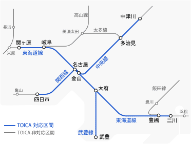 The map of TOICA-VALID-AREA (JR Tokai IC Card)